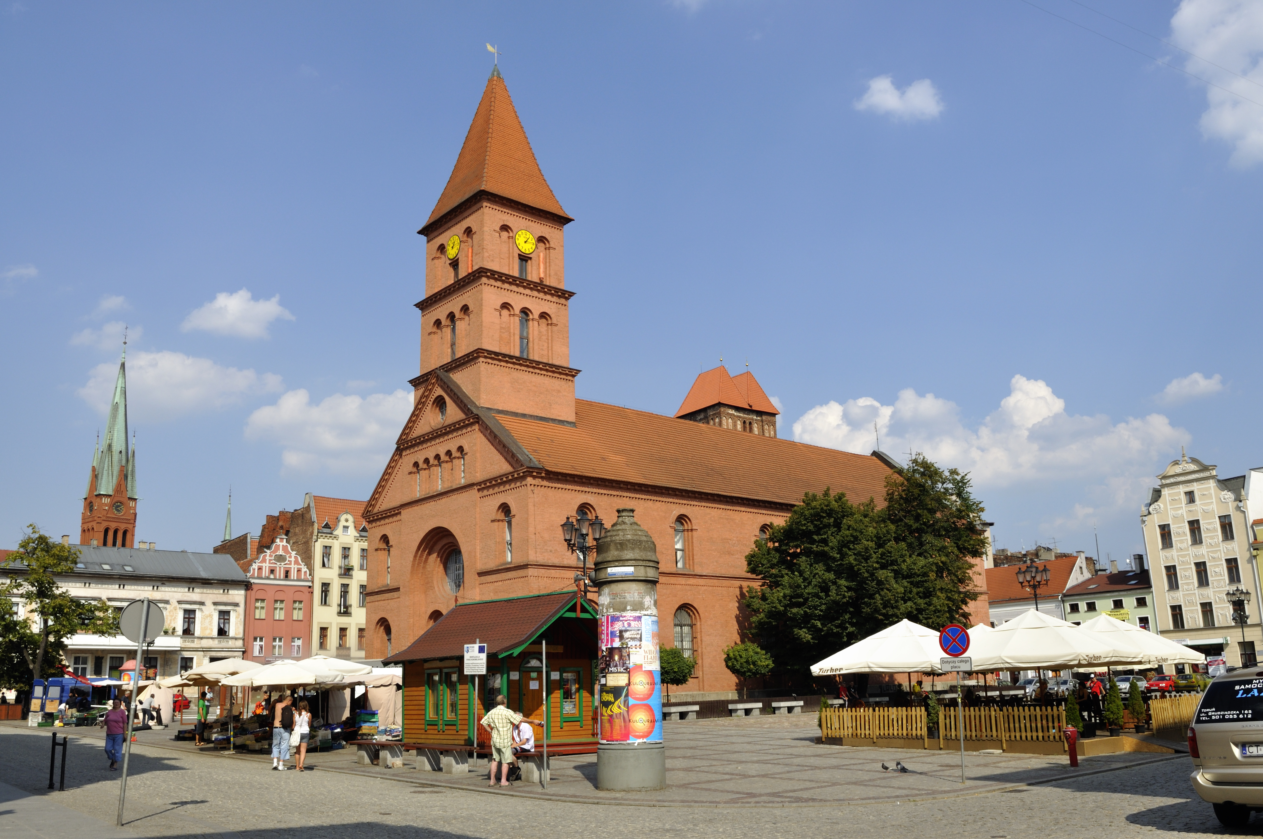 Picture taken in Toruń after Wikimania 2010 conference.